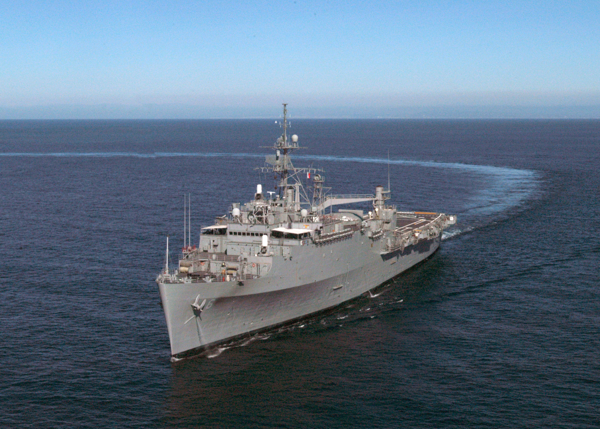 The Austin-class amphibious transport dock ship USS Duluth (LPD 6), underway off the coast of San Diego, Calif. The versatile Austin-class LPDs provide substantial amphibious lift for Marine troops and their vehicles and cargo. Additionally, they serve as the secondary aviation platform for amphibious ready groups. The Duluth is home ported at Naval Station San Diego, Calif.